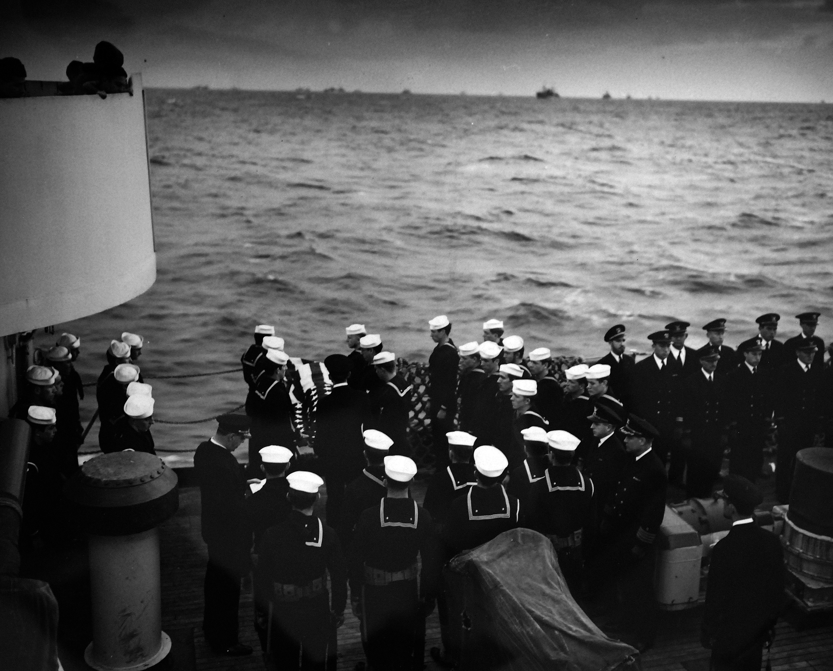 Lot-824-3: WWII-Atlantic Convoys. U.S. Coast Guard Cutter Sinks Sub. As the convoy sails in the background, Coast Guardsman Radioman Third Class Julius T. Petrella is buried in the North Atlantic after being killed in action. His ship, the Coast Guard combat cutter Spencer (WPG-36), contacted a U-Boat, forced it to the surface with depth charges, and shelled it with her deck guns. Commander Harold S. Berdine, commanding officer, reads the ceremony, as Captain Paul R. Heineman, right center foreground, Commodore of the convoy, and all the crew stand at attention. Image possibly pertains to the sinking of U-175 on April 17, 1943. U.S. Coast Guard Photograph. Courtesy of the Library of Congress. Photographed through Mylar sleeve. (2018/02/23).